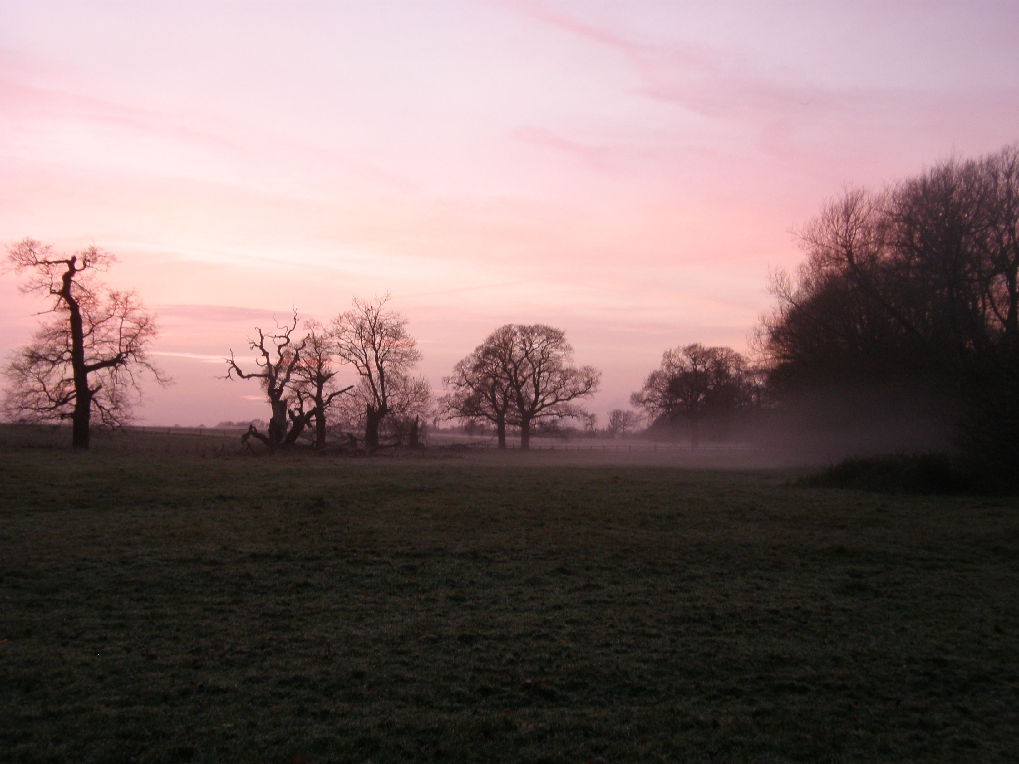 Author: Coombe Country Park